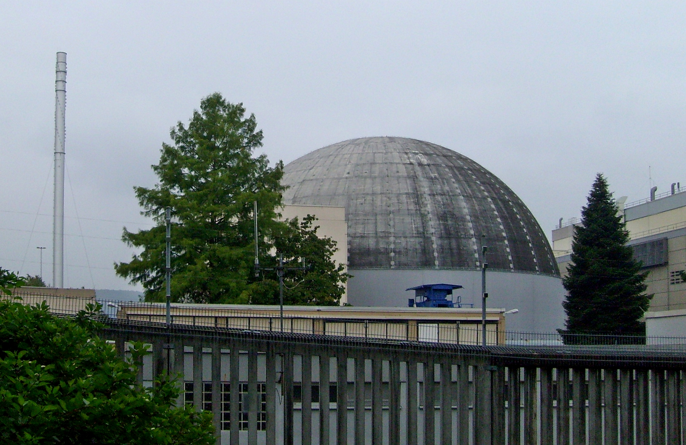 The Obrigheim Nuclear Power Plant (KWO) in Obrigheim, Baden, Germany